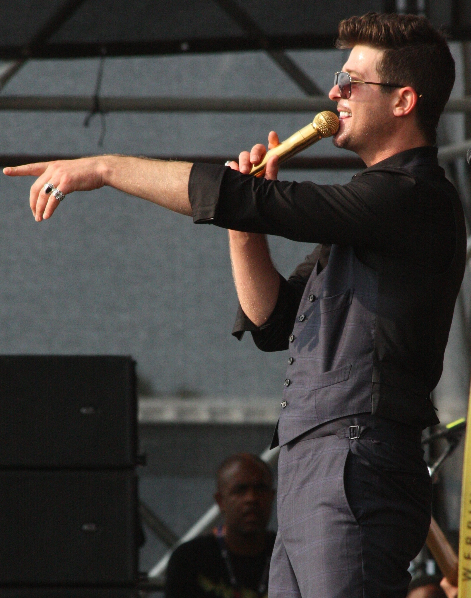 Robin Thicke in 2014